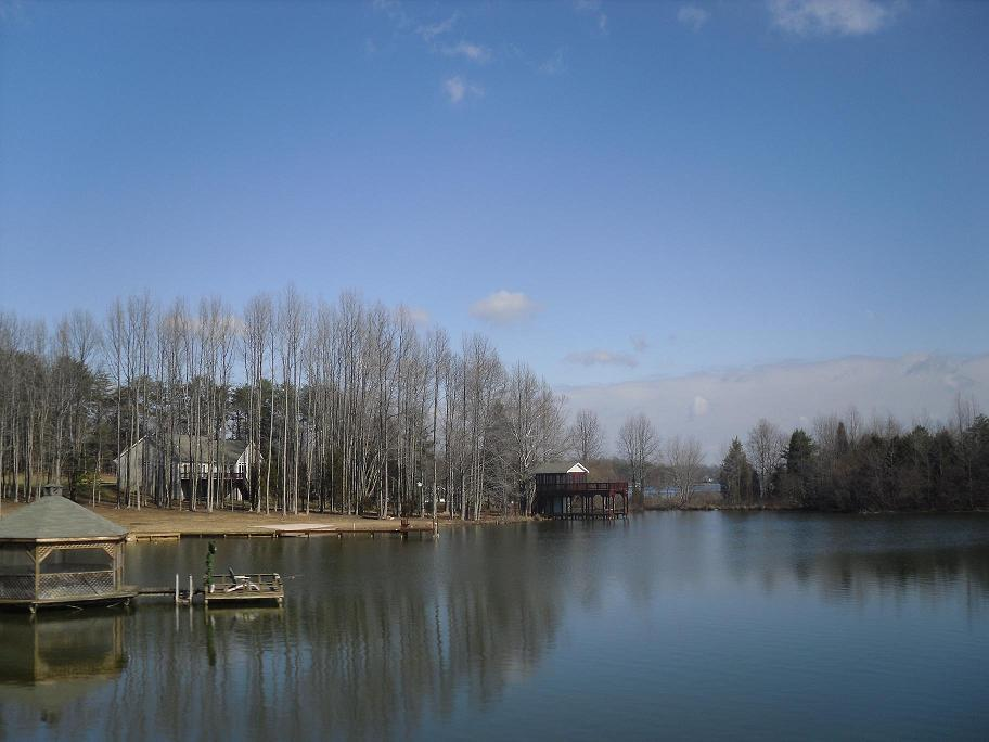 Photo I took of Lake Anna, Virginia.